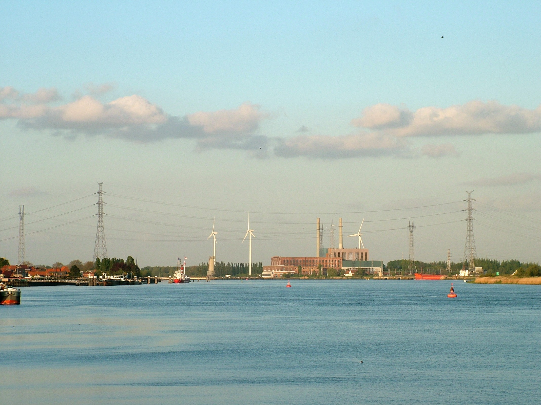 View on the electricity plant of Schelle, Belgium